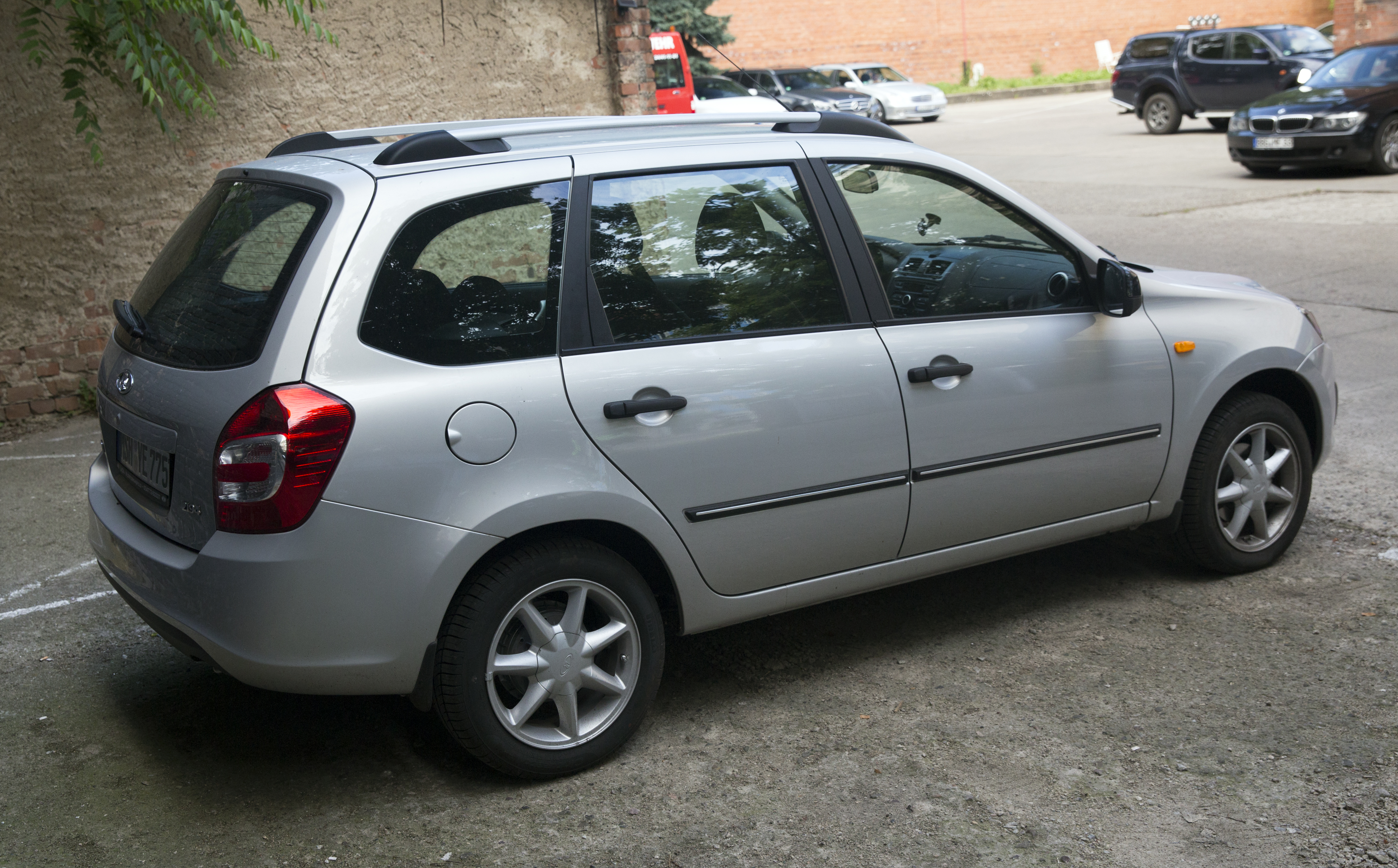 Lada 2194 (Kalina II) in Berlin.